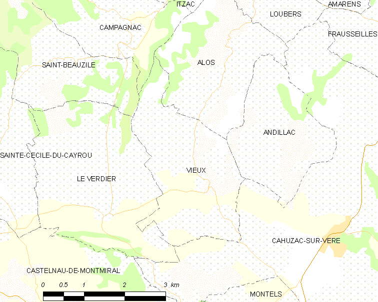 Map of French municipality Vieux